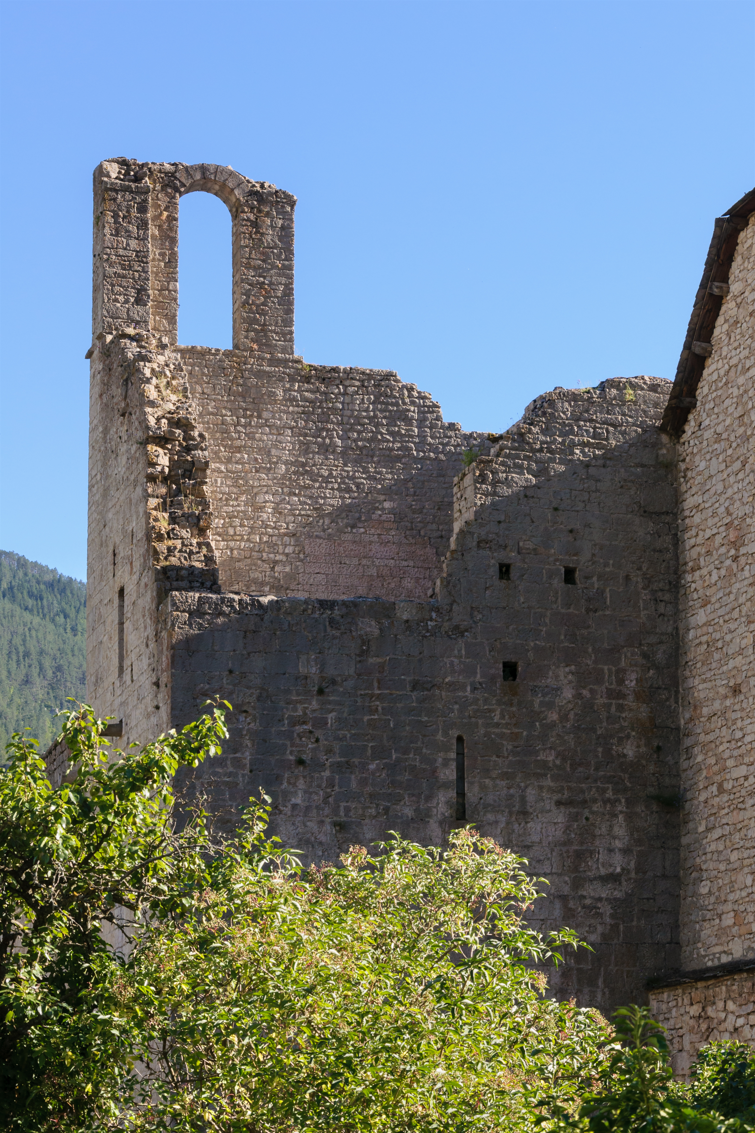 Ruins of the monastery of Sainte-Enimie, Lozère, France